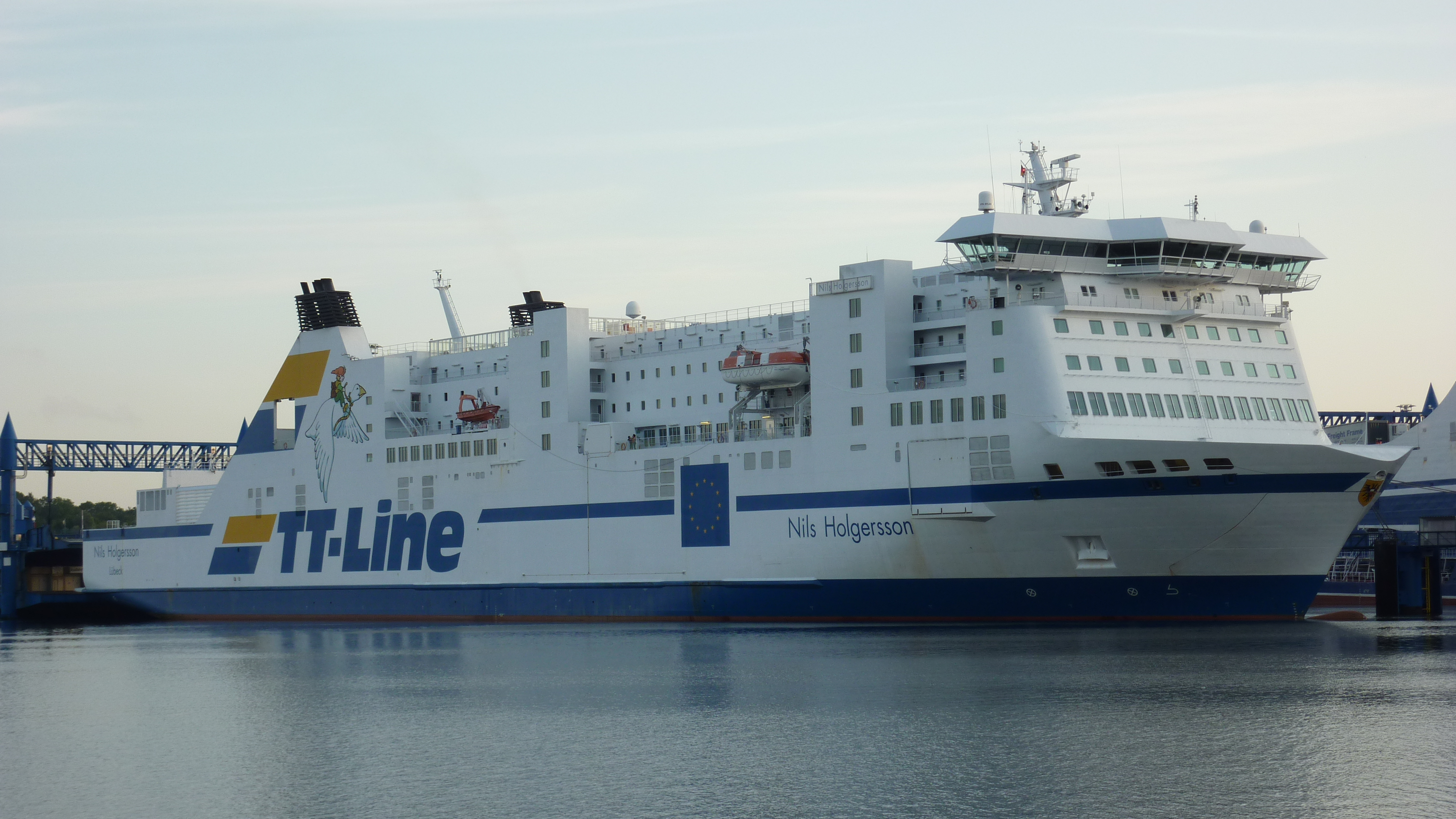 M/S Nils Holgersson in Travemünde, Germany